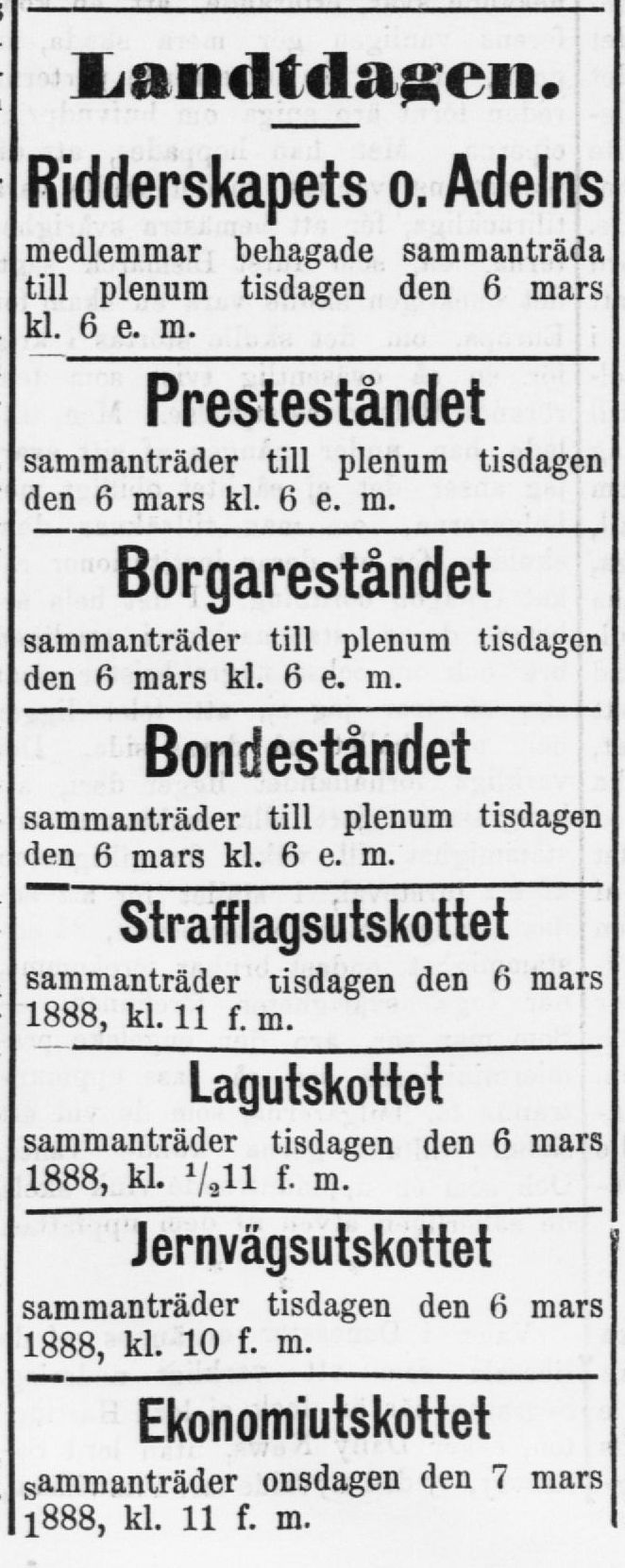 An announcement for the assembly of the Diet of Finland the same day